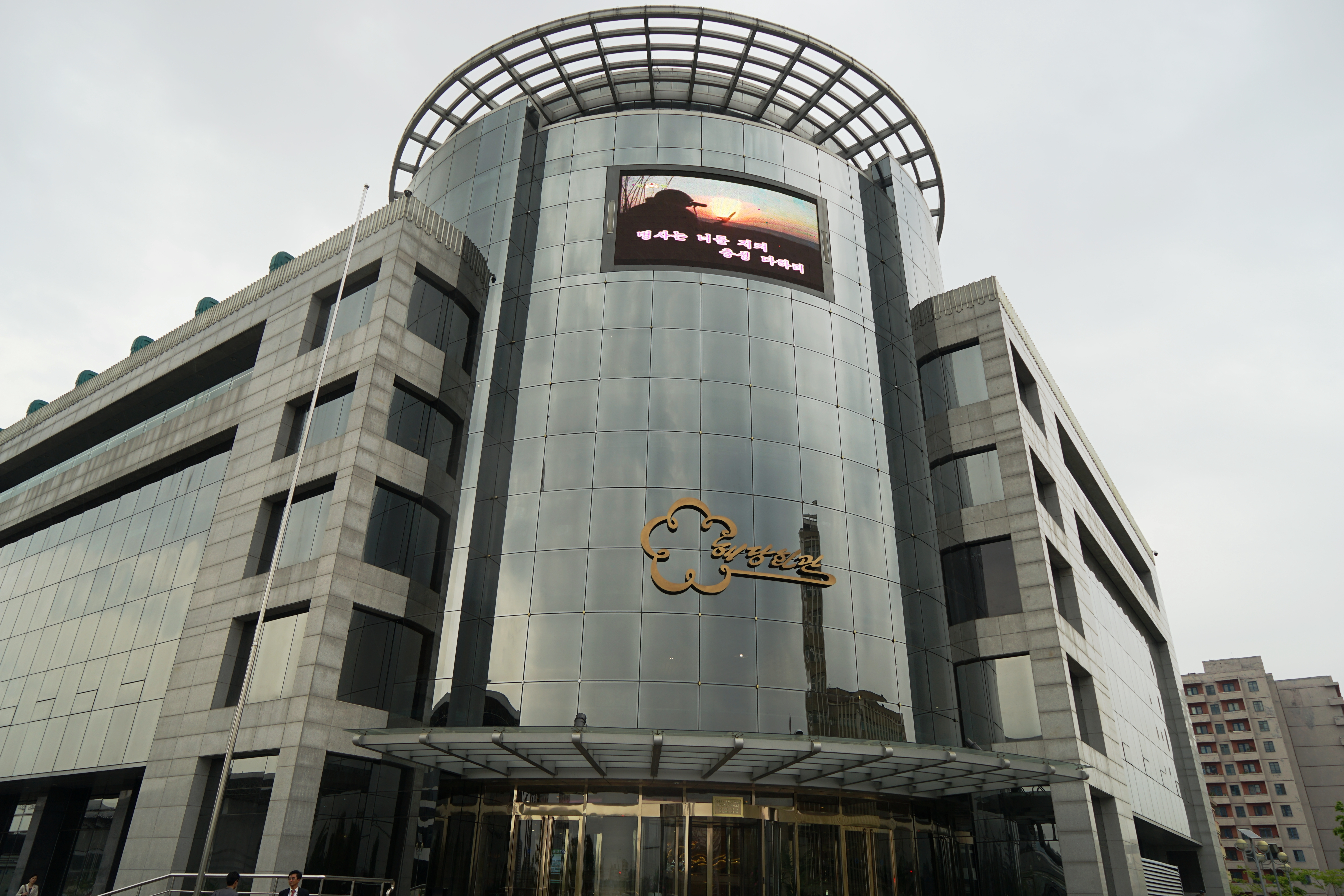 Haedanghwagwan, Pyongyang, North Korea